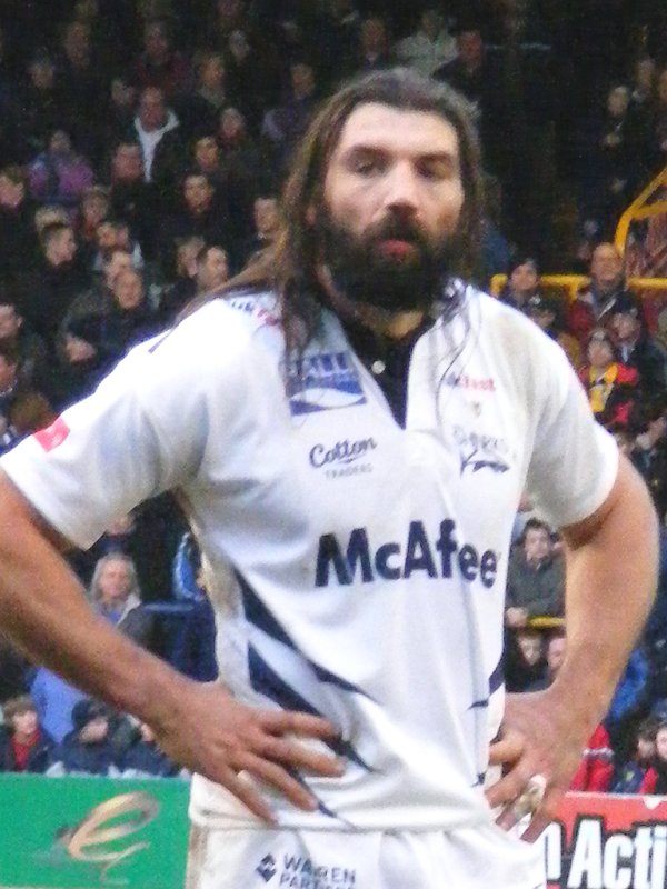 The french rugbyman Sébastien Chabal with Sale Sharks